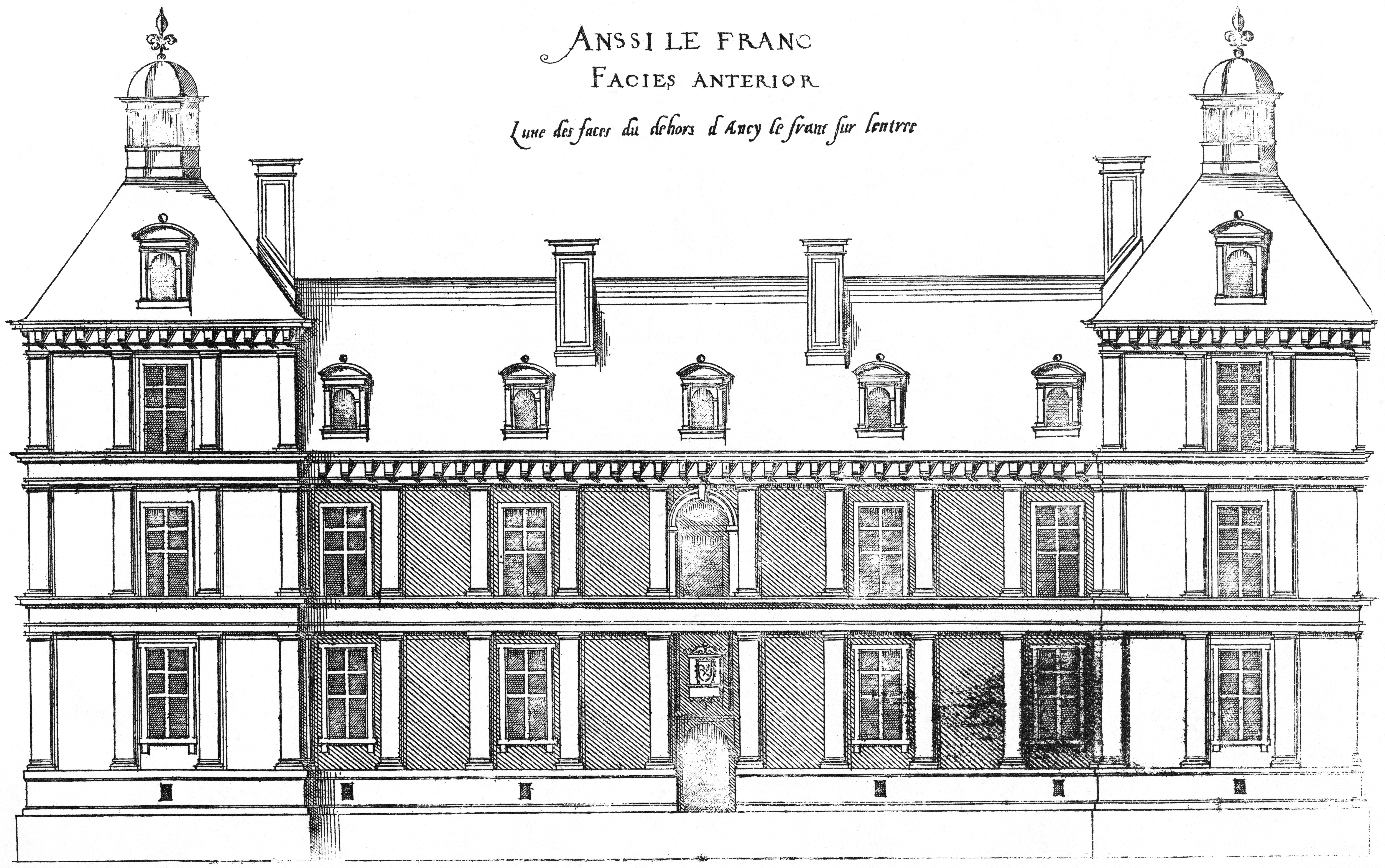 Engraving from Le premier volume des plus excellents Bastiments de France by Jacques I Androuet du Cerceau. Elevation of the entrance facade of the Château d'Ancy-le-Franc.